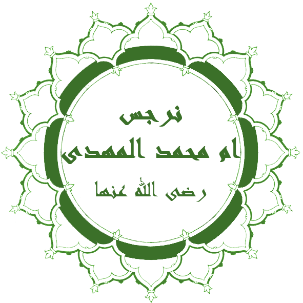 Mother of Muhammad al-Mahdi, final Imam of Shia